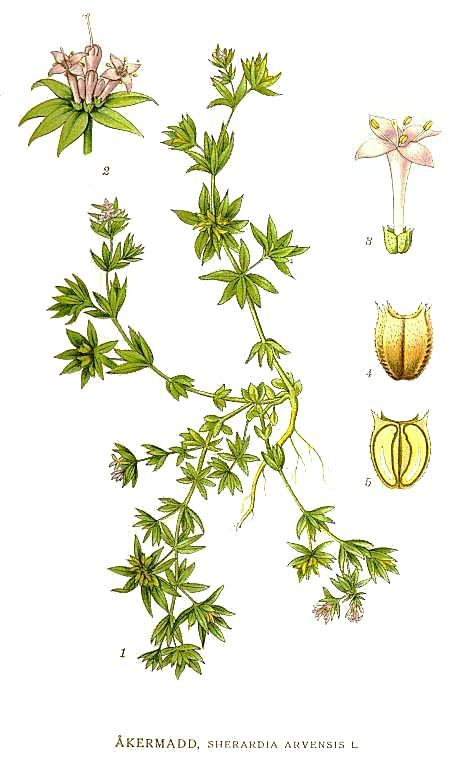 Original Description Åkermadd, Sherardia arvensis L.